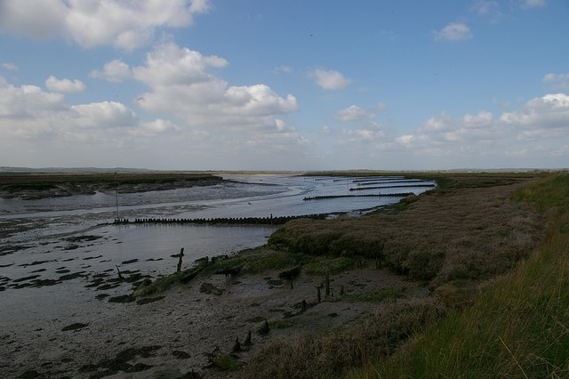 Bridgemarsh Creek with Bridgemarsh Island to the left and the north bank of the River Crouch to the right in Essex, England.